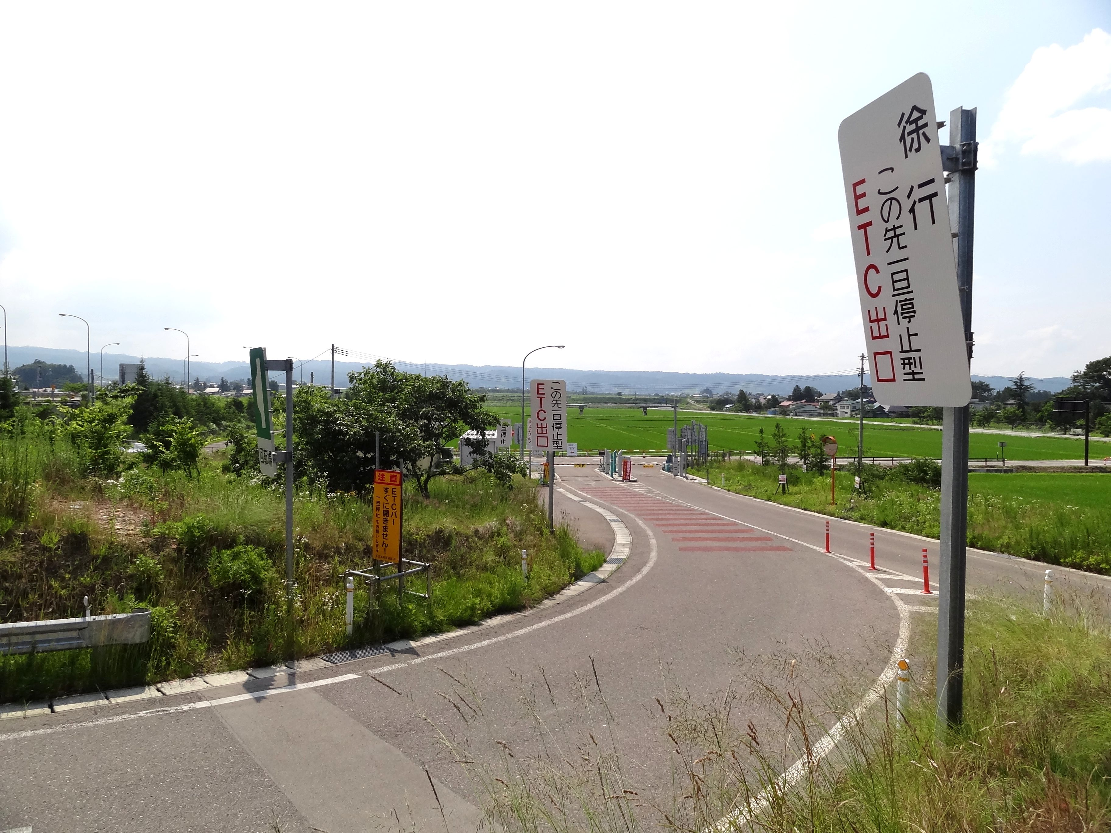 Niitsuru Smart Interchange on the Ban-etsu Expressway inbound line